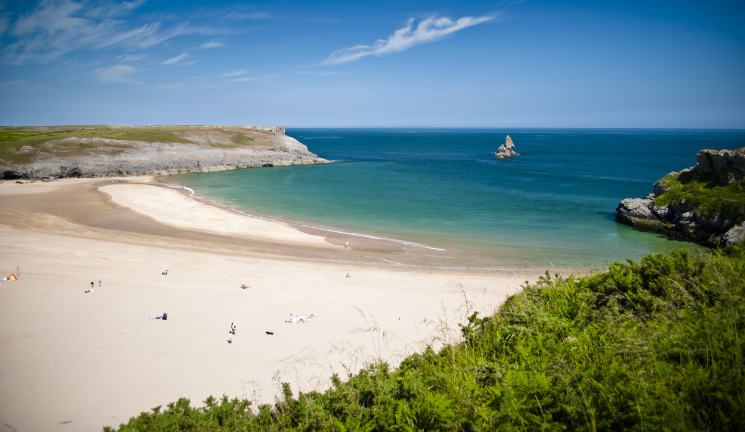 Broad Haven south beach near Bosherston, Pembrokeshire, UK.